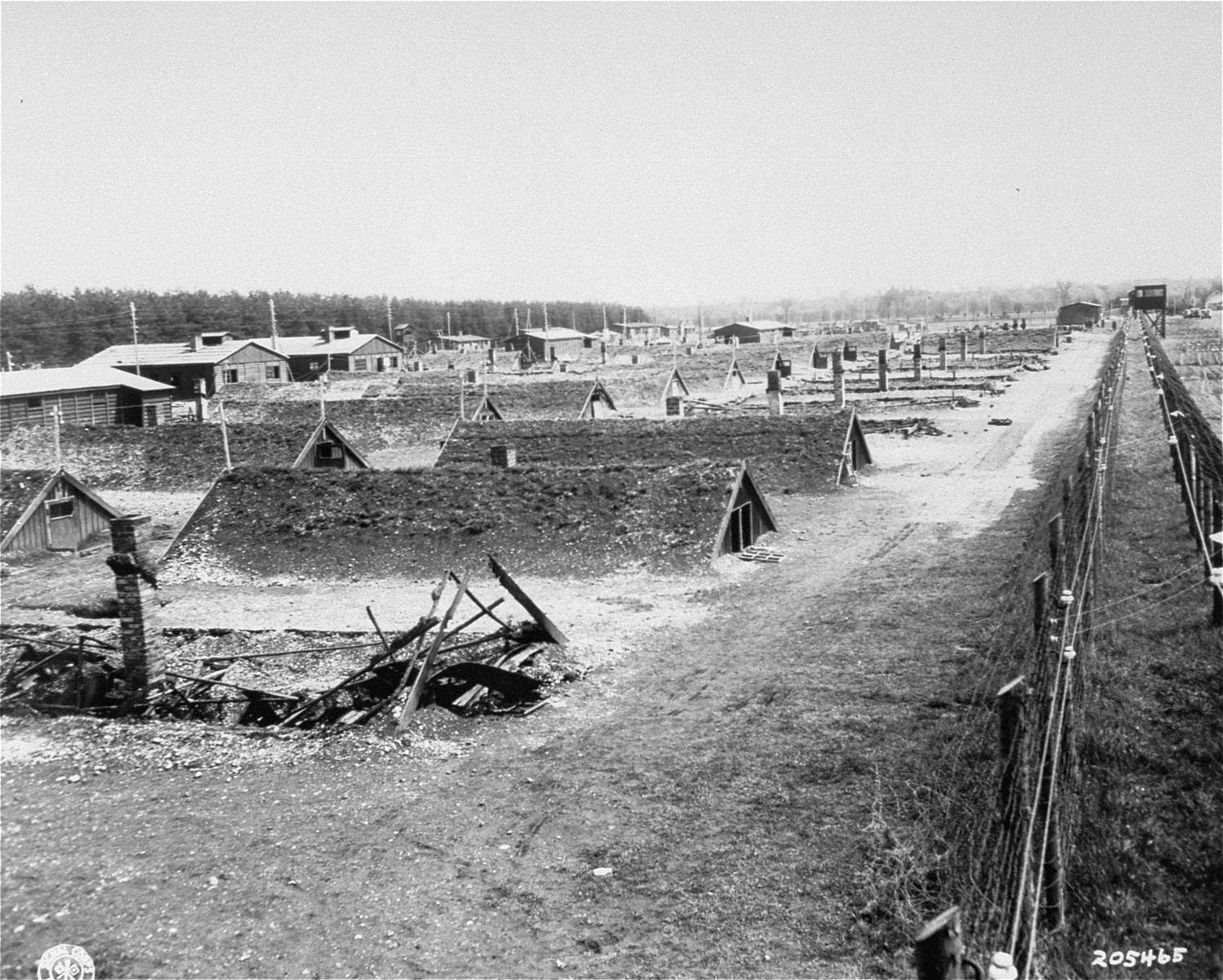 View of barracks after the liberation of Kaufering, a network of subsidiary camps of the Dachau concentration camp. Landsberg-Kaufering, Germany, April 29, 1945.